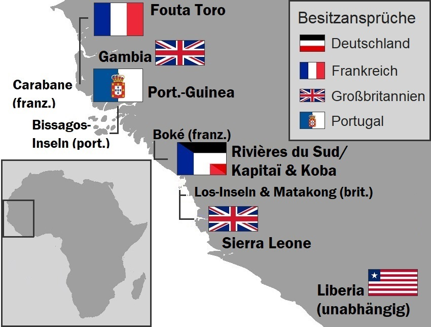 Ownership claims of European states on coastal regions in West Africa around 1885